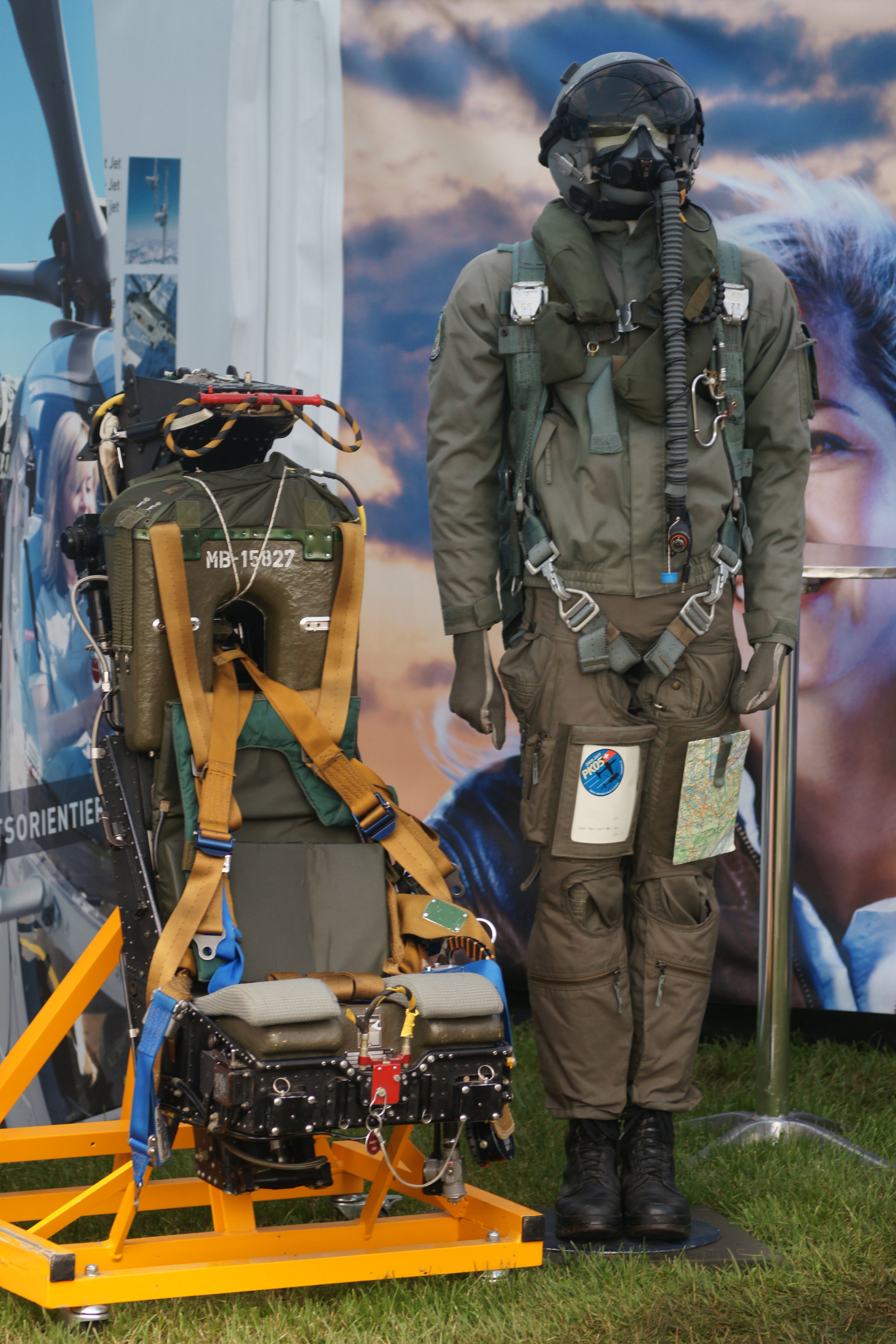 Swiss Air Force flight suit and ejection seat.